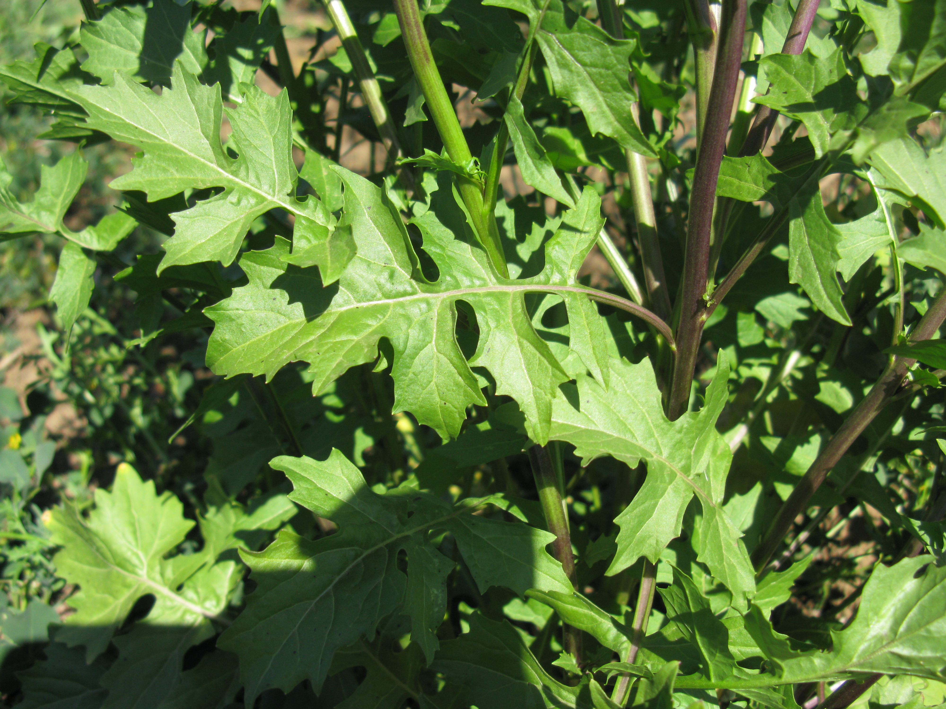 Introduced, cool season, annual, erect, glabrous or shortly pubescent herb 10–80 cm tall. Basal leaves are to 15 cm long, lyrate-pinnatifid, toothed, petiolate, reducing to lanceolate, mostly toothed. Flowerheads are paniculate. Sepals are 1–2 mm long and glabrous. Petals are 1–2.5 mm long, yellow to pale yellow. Siliqua are linear, straight, horizontal, 2.5–5 cm long, 1 mm wide and attenuate into a style; pedicels are thick and 2–5 mm long. Flowering is in late winter and spring. Widespread in dry regions west of the Tablelands.